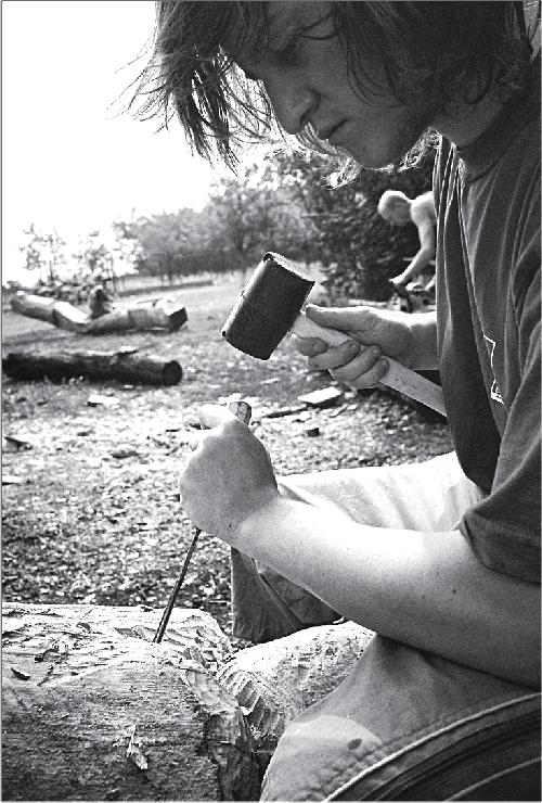 Philip Firsov, Summer 2007, Cucuteni, Romania